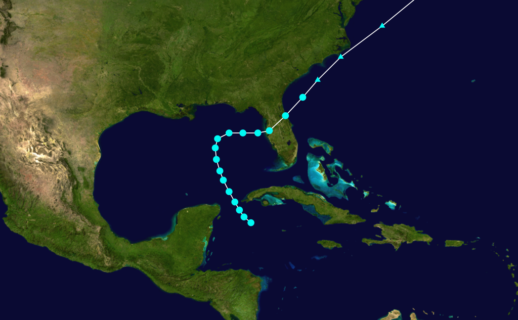 1899 Atlantic tropical storm 6 track. Uses the color scheme from the Saffir-Simpson Hurricane Scale.